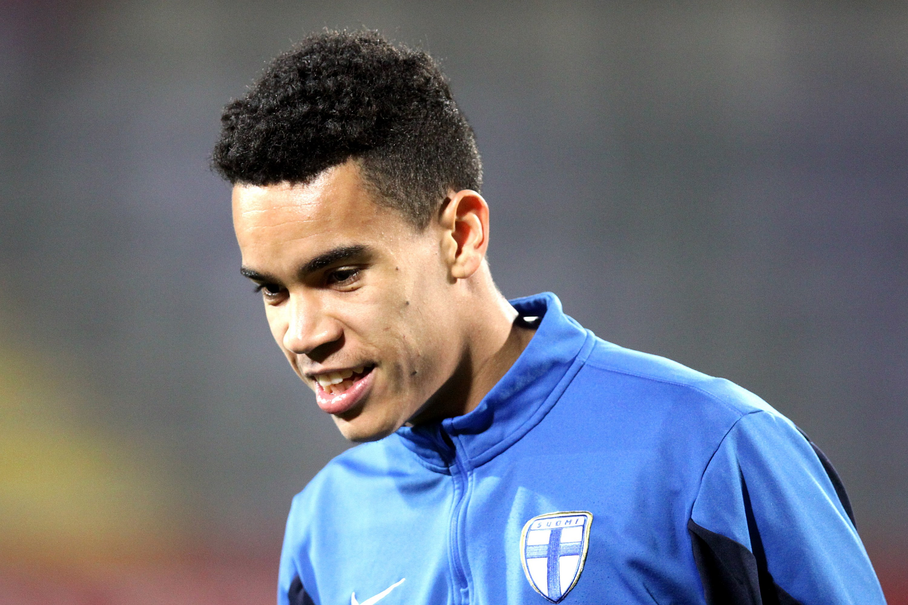 2017 UEFA European Under-21 Championship qualification – Austria U-21 (red shirts) vs. :en:Finland national under-21 football team |Finnland U-21 (blue shirts) 2-0 (0-0) – 2015-11-13 in Vienna, Austria Arena – The photo shows Pyry Soiri.